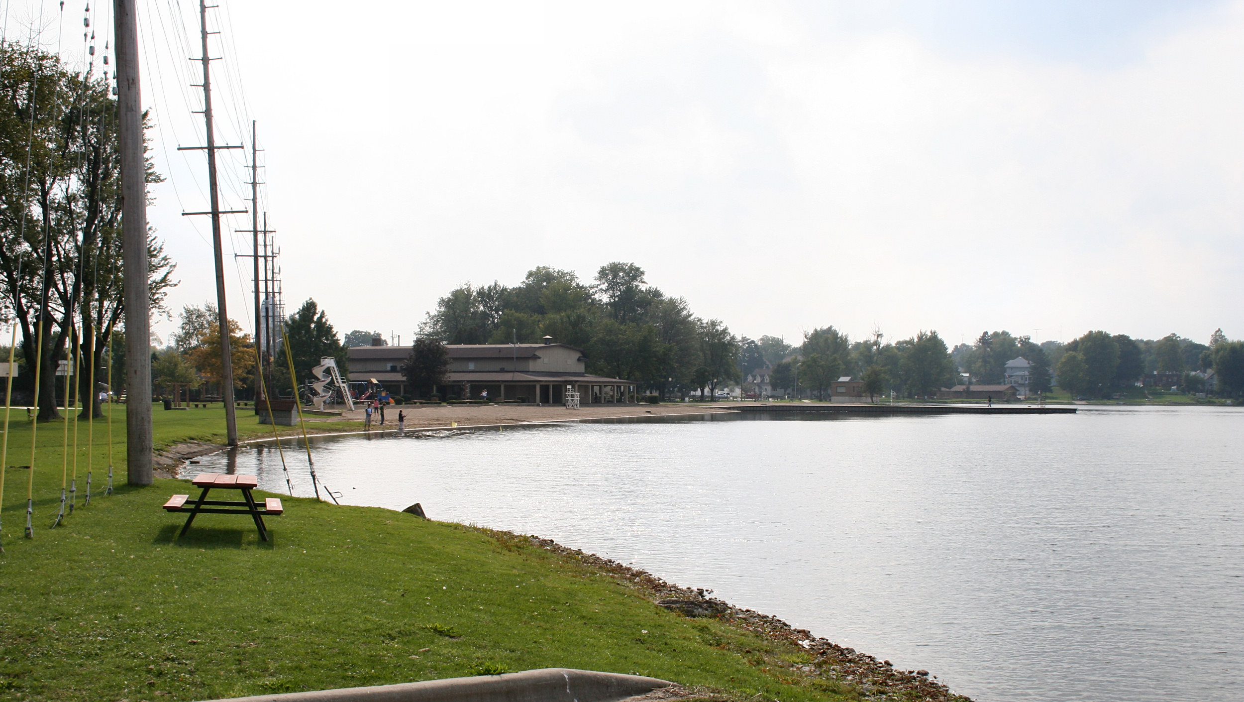 Center Lake Park in October 2005, on the Center Lake shore in Warsaw, Indiana.